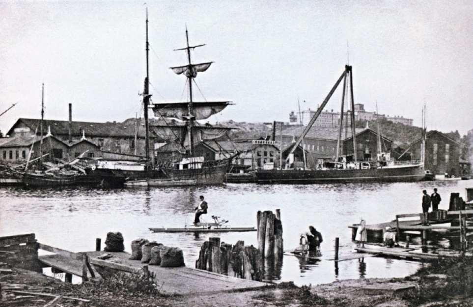 W:m Crichton & C:o shipyard in Turku, Grand Duchy of Finland, in early summer 1897. Imperial Russian torpedo cruiser Abrek under outfitting at quay (right side). Local inventor, engineer Fredrik Troberg is testing his water velocipede on river Aura. The building in the background, on top of the hill is Kakola jailhouse.